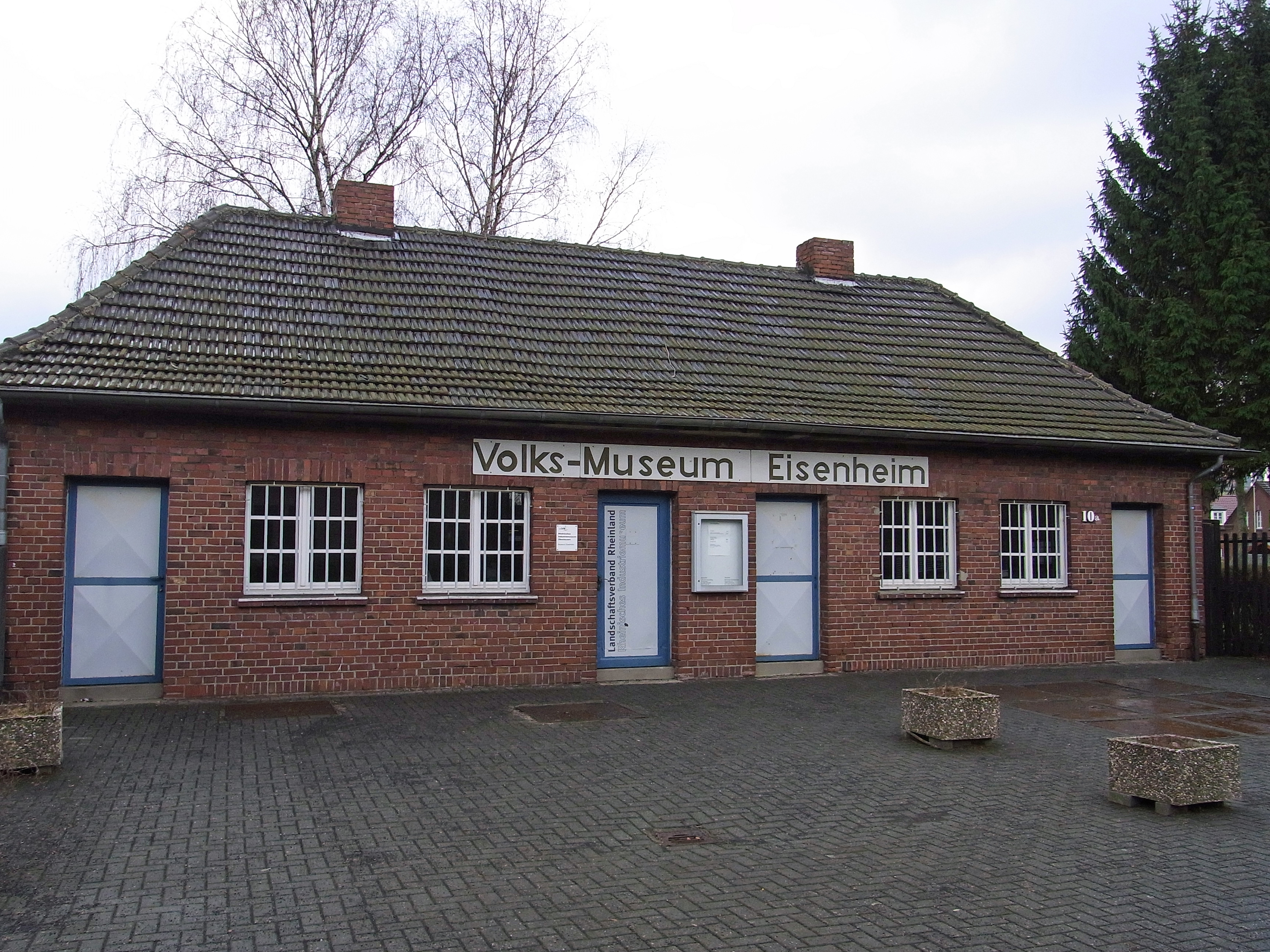 Photo output of the Tour de Ruhr of the European Capital of Culture Ruhrgebiet for the Free Travel-Shirt